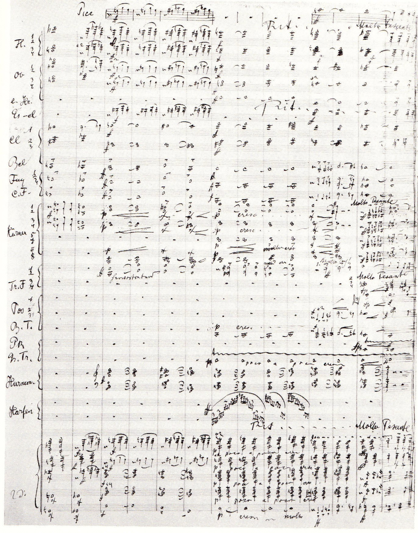 Manuscript score of the "Chorus Mysticus" section from Part II of Gustav Mahler's Eighth Symphony, first performed on 12 September 1910 in Munich. US Premiere March 1916